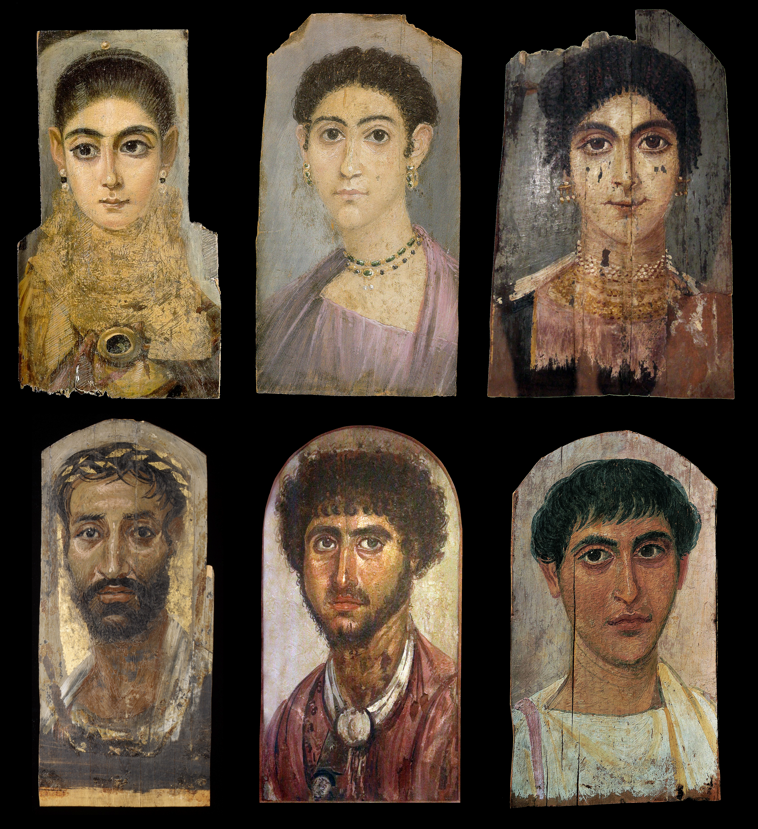 A collection of ancient Roman portraits from the famous collection of Fayum mummy portraits